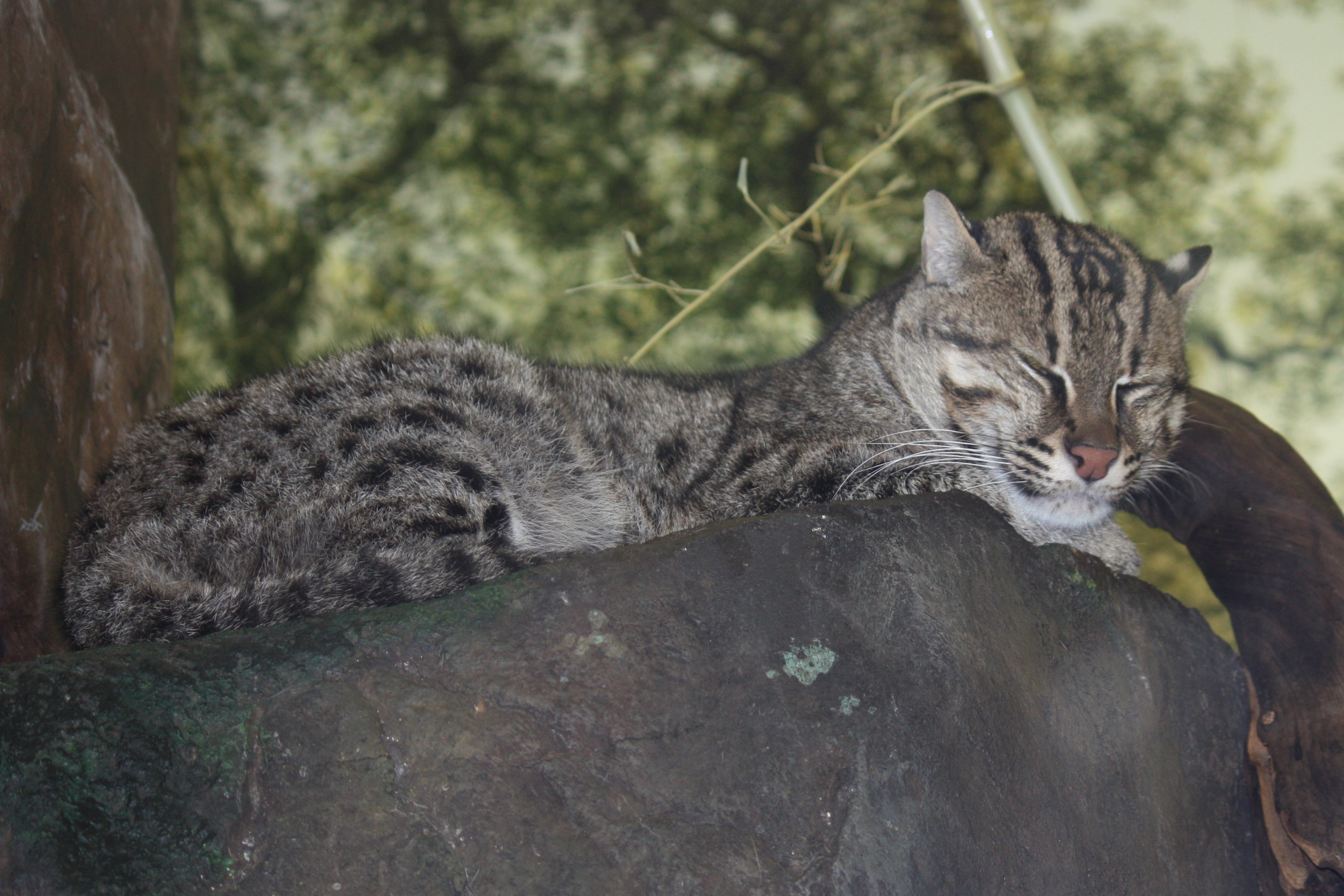 Fishing Cat Prionailurus viverrinus at the Cincinnati Zoo